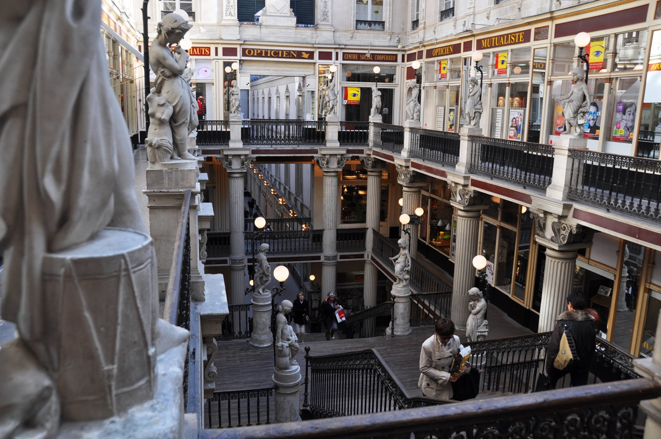 Passage Pommeraye in downtown Nantes (France)